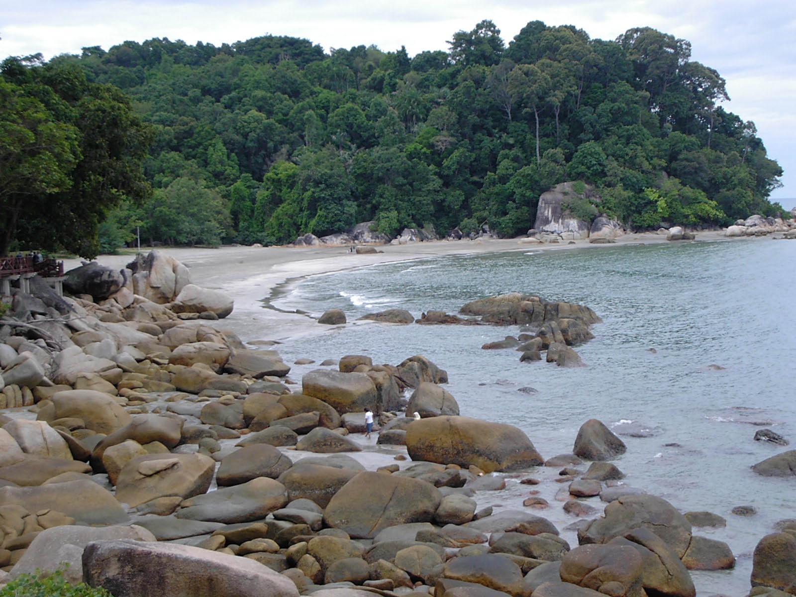 Teluk Cempedak, a beach near Kuantan (capital of the state Pahang, Malaysia)